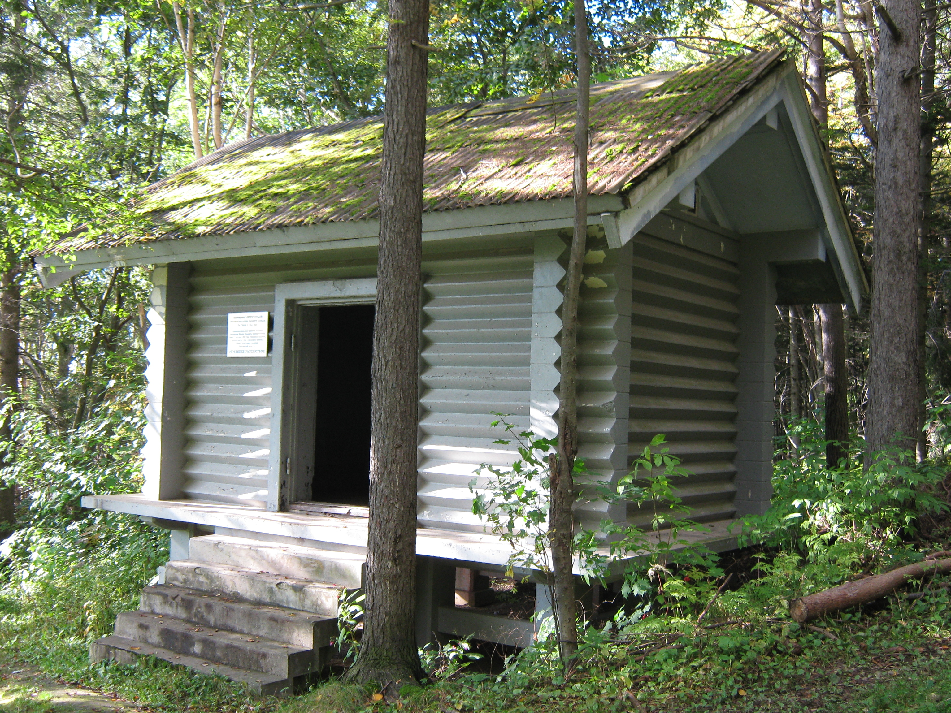 The treasure-house of the Karafuto shinto shrine, built in 1930s in Toyohara, the capital of the former Japanese Prefecture of Karafuto (now Yuzhno-Sakhalinsk, Russia).